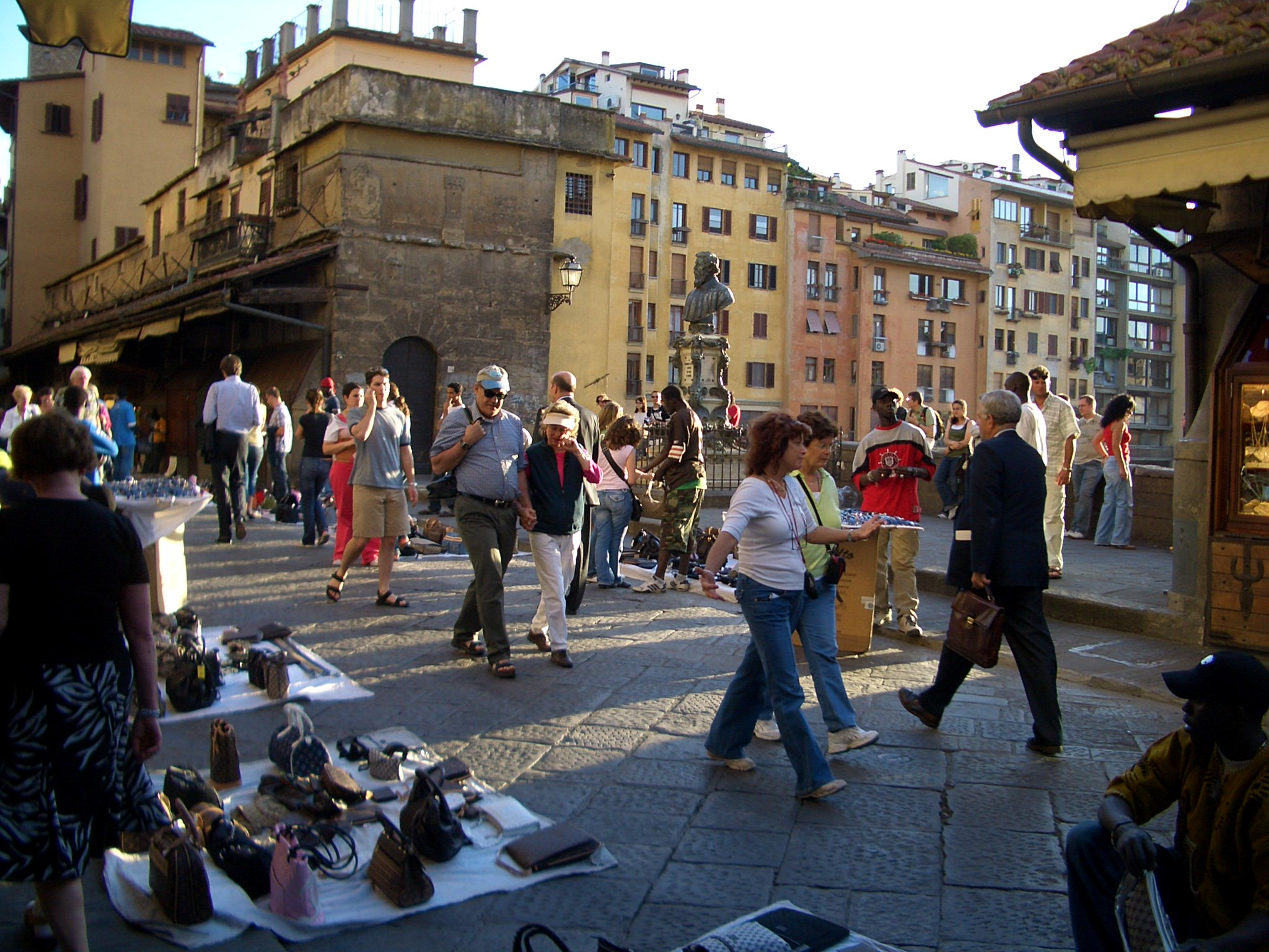 Vendors on Ponte Vecchio, Florence